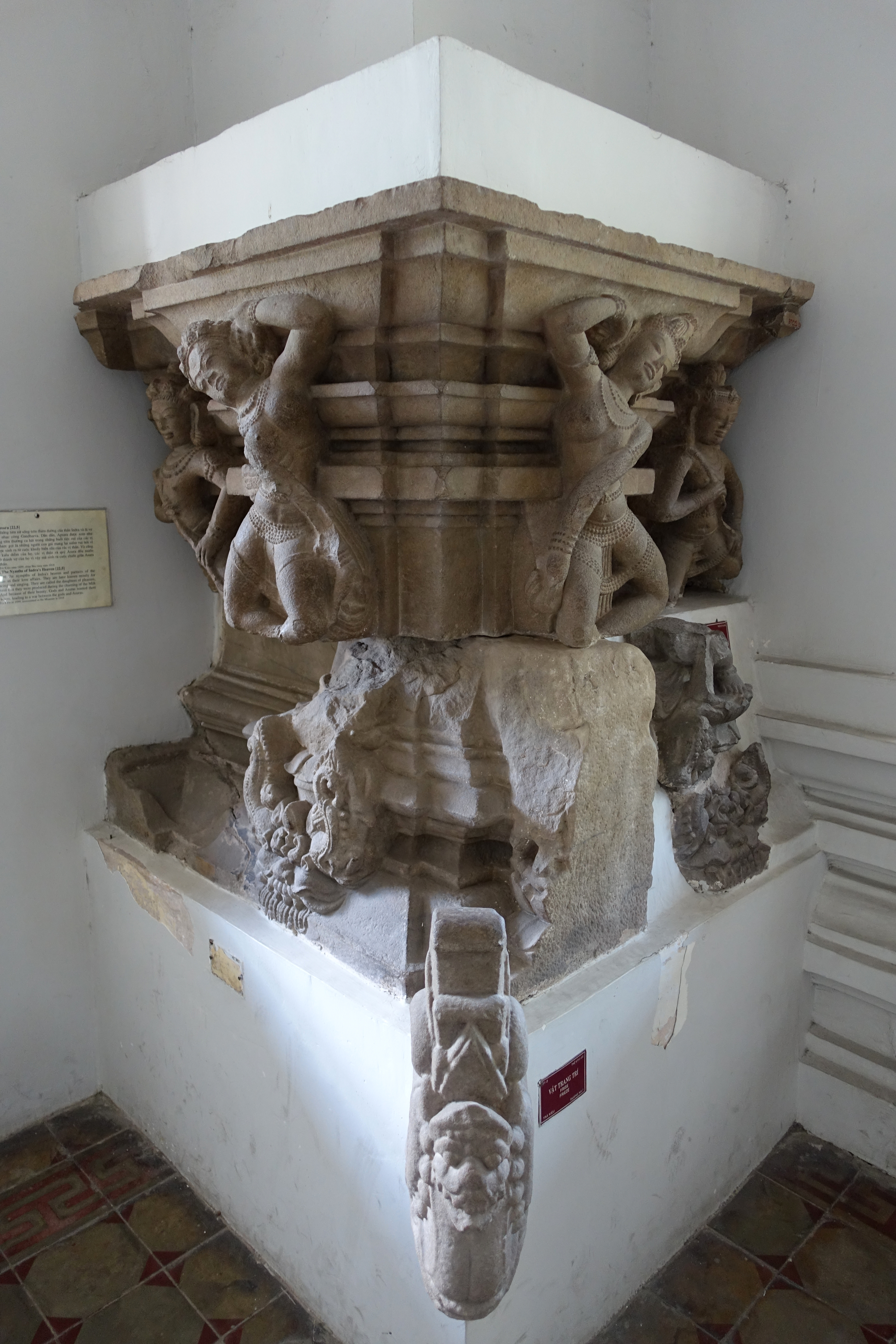 Cham sculpture at the Museum of Cham Sculpture, Da Nang, Vietnam. This artwork is in the public domain because the artist died more than 70 years ago.